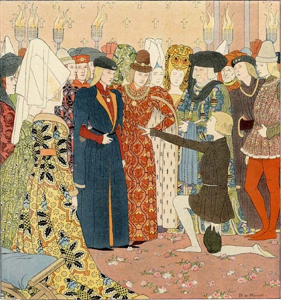 Jeanne d'Arc meets the Dauphin of France